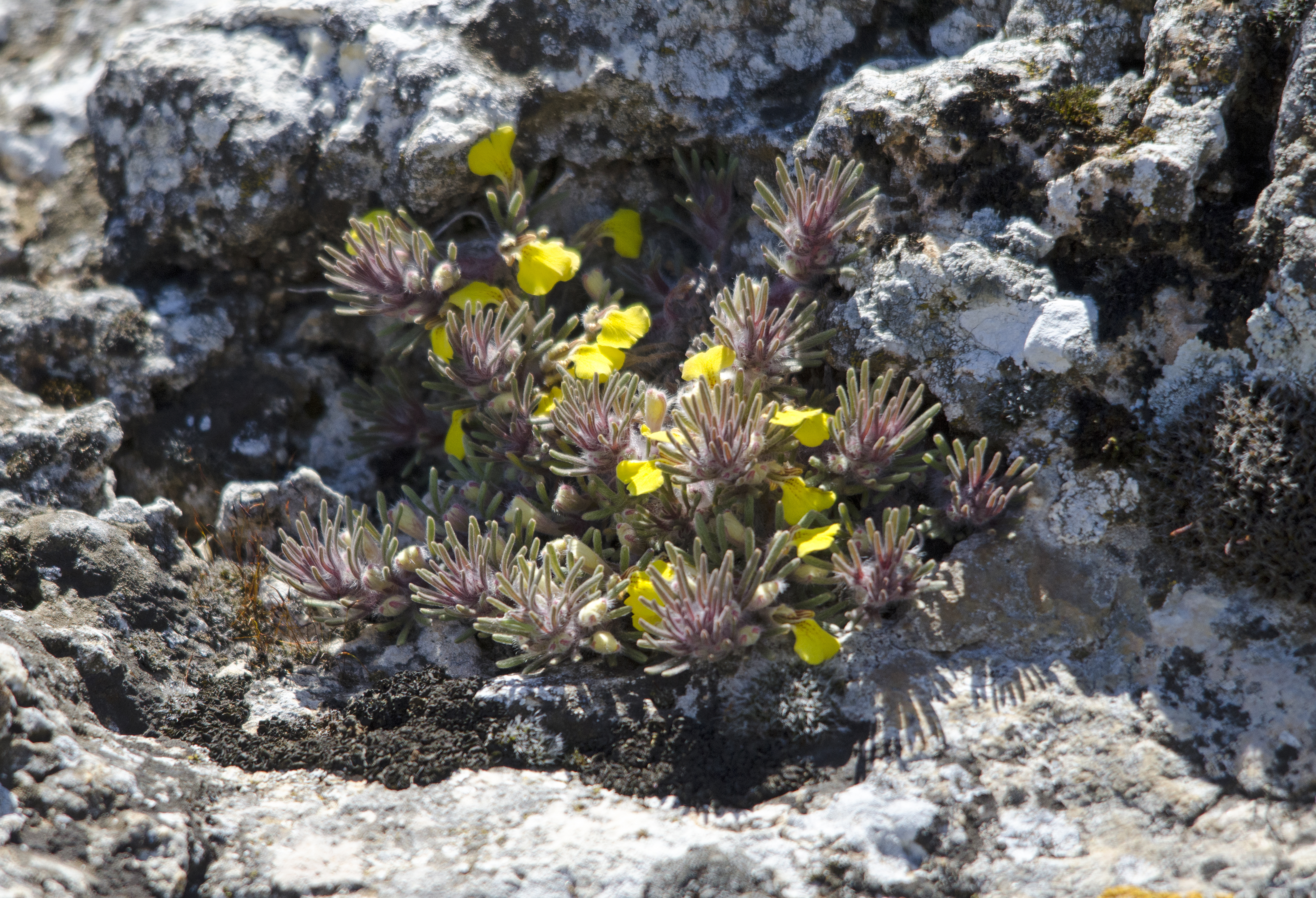 Ground-pine (Ajuga chamaepitys) in a rock hollow. Cambazlı, Silifke - Mersin, Turkey.